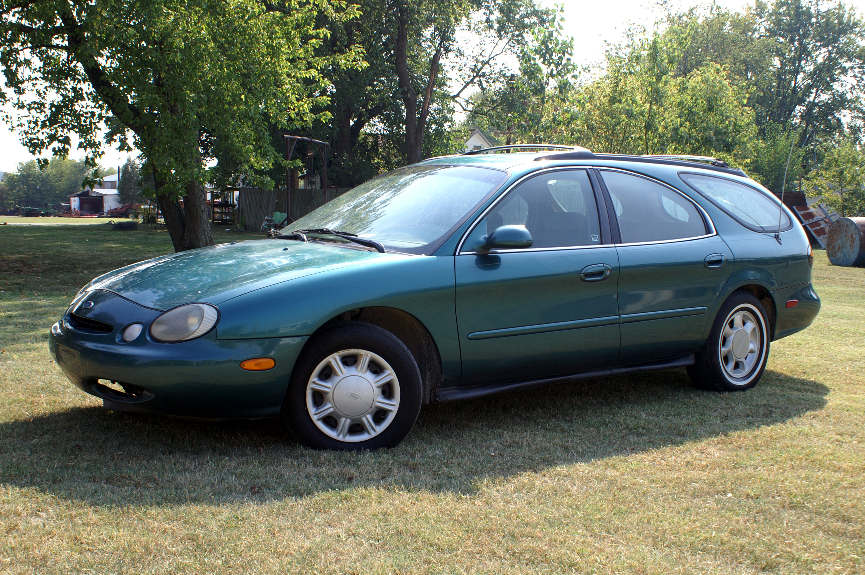 1996 Ford Taurus GL Station Wagon